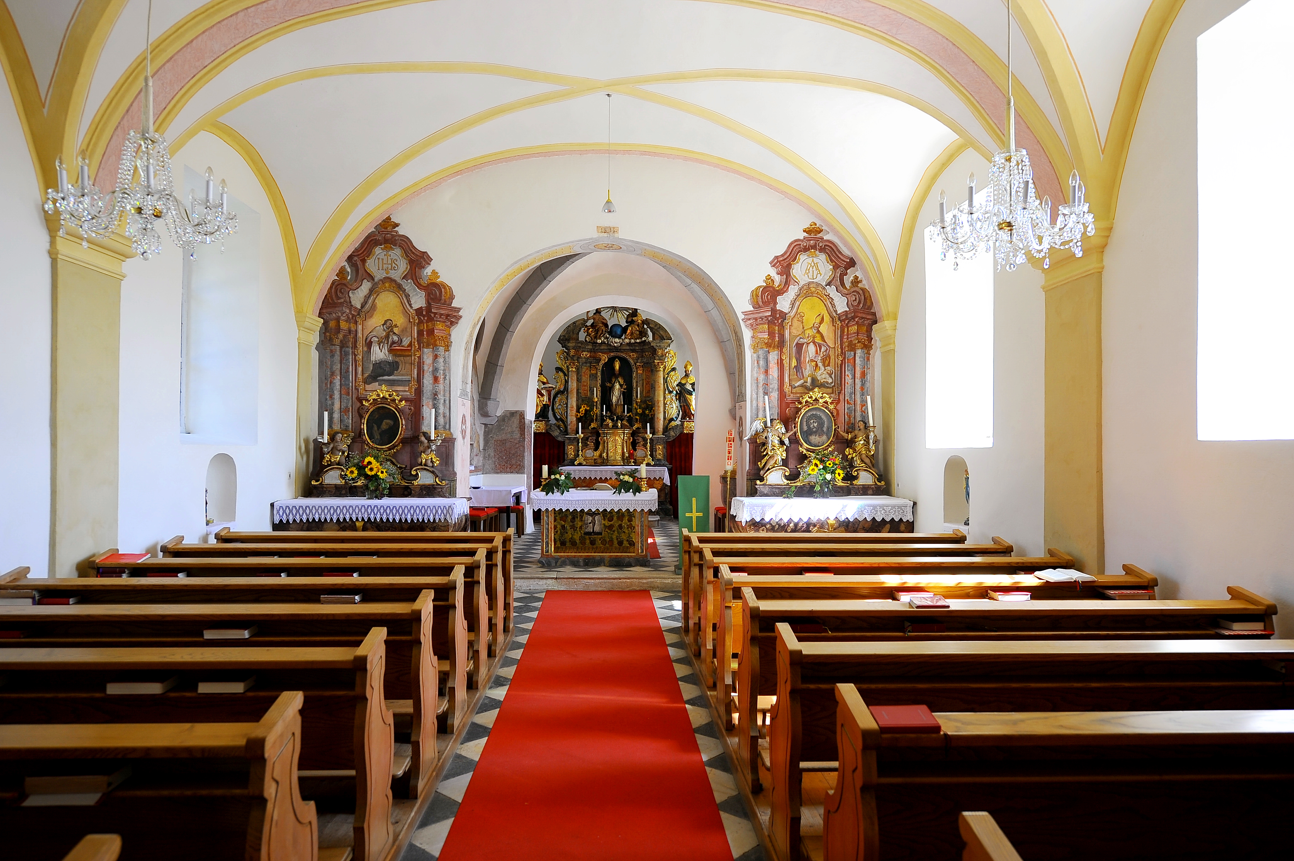 Nave of the parish church Holy Lambert at Poertschach am Berg, municipality Maria Saal, district Klagenfurt Land, Carinthia / Austria / EU